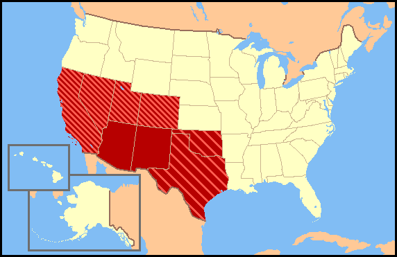 Updated February 2009.